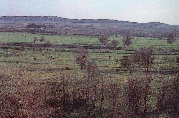 Hills of Marañosa, Getafe, (Madrid), Spain Author: Miguel303xm Date: January 8th, 2003 Place: Hills of Marañosa, Getafe, Madrid, Spain